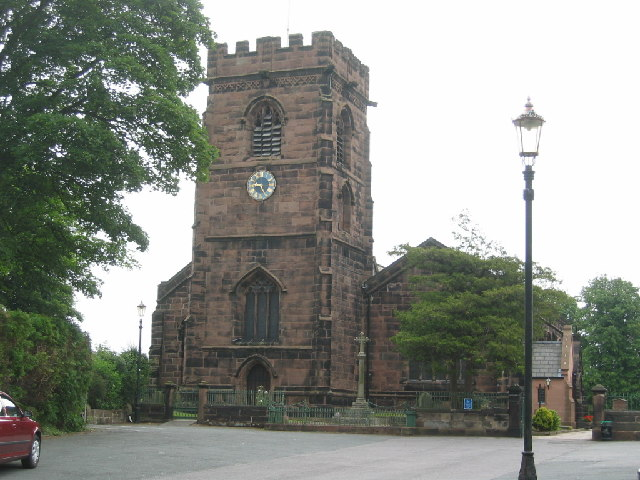 St Mary's Church, Weaverham Sandstone church with tower found in Weaverham